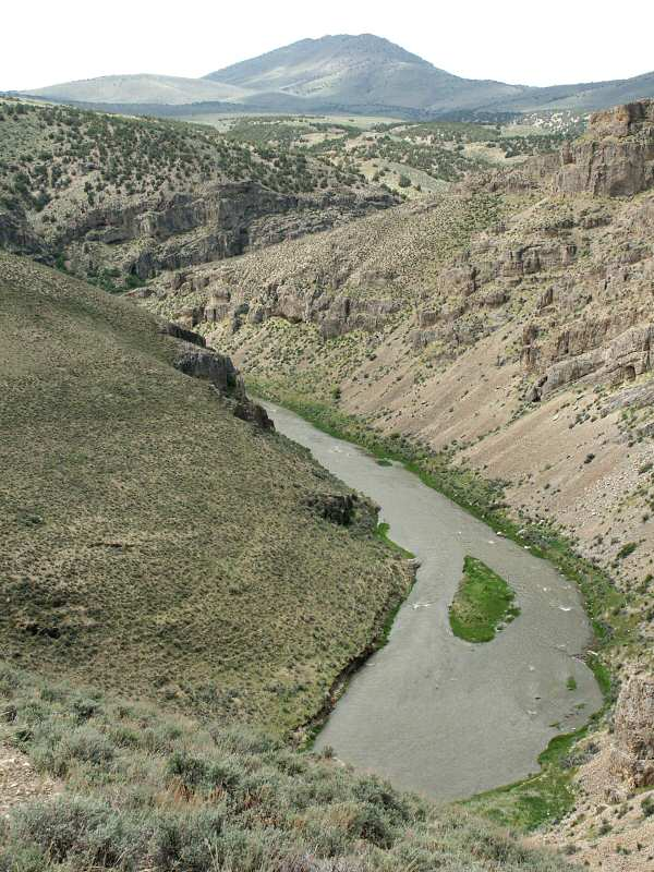 The South Fork of the Humboldt River, Nevada, looking west from where it passes through South Fork Canyon. In the distance is Grindstone Mountain.